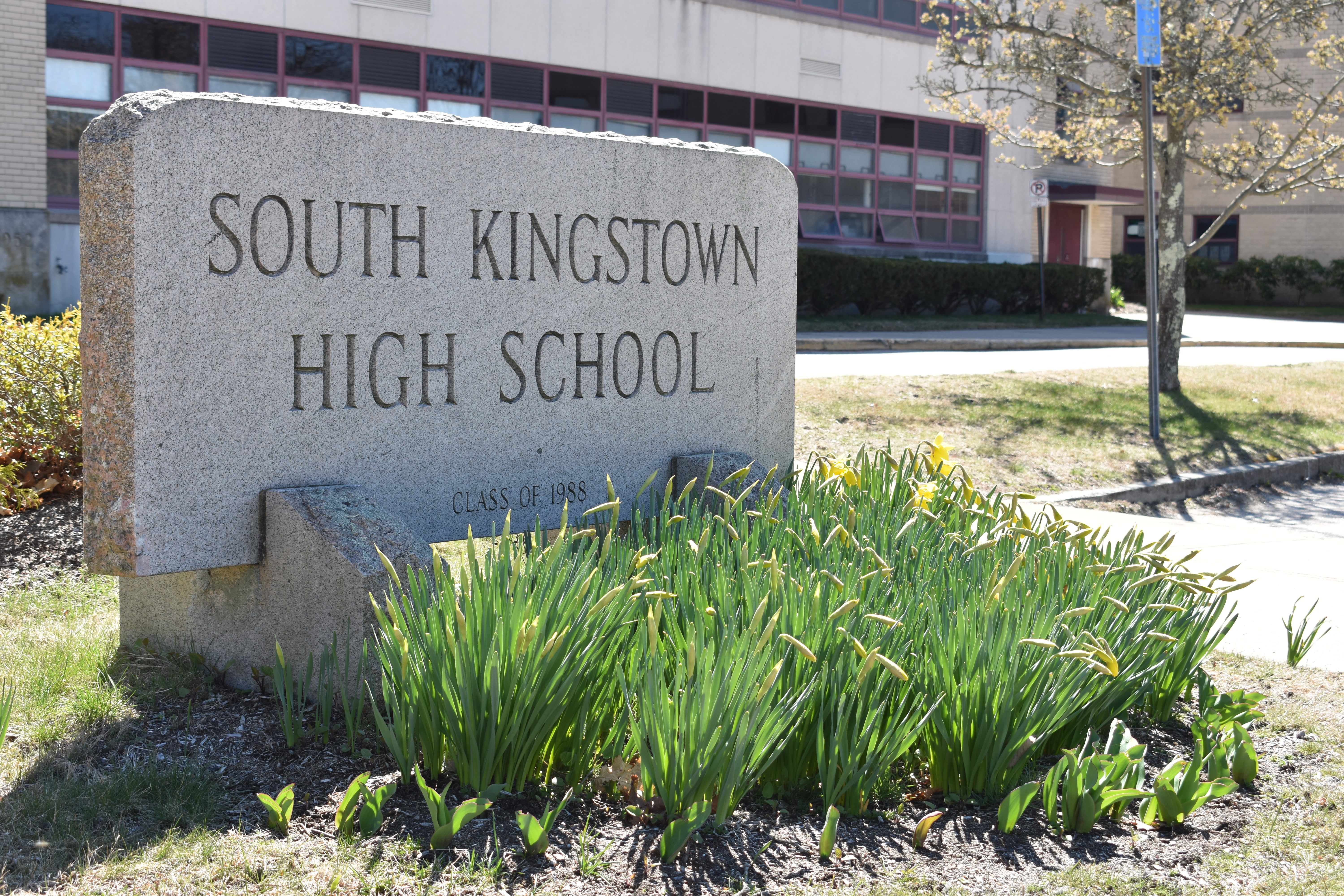 This stone-carved sign sits directly outside of the main entrance to the school. It was a gift from the class of 1988.